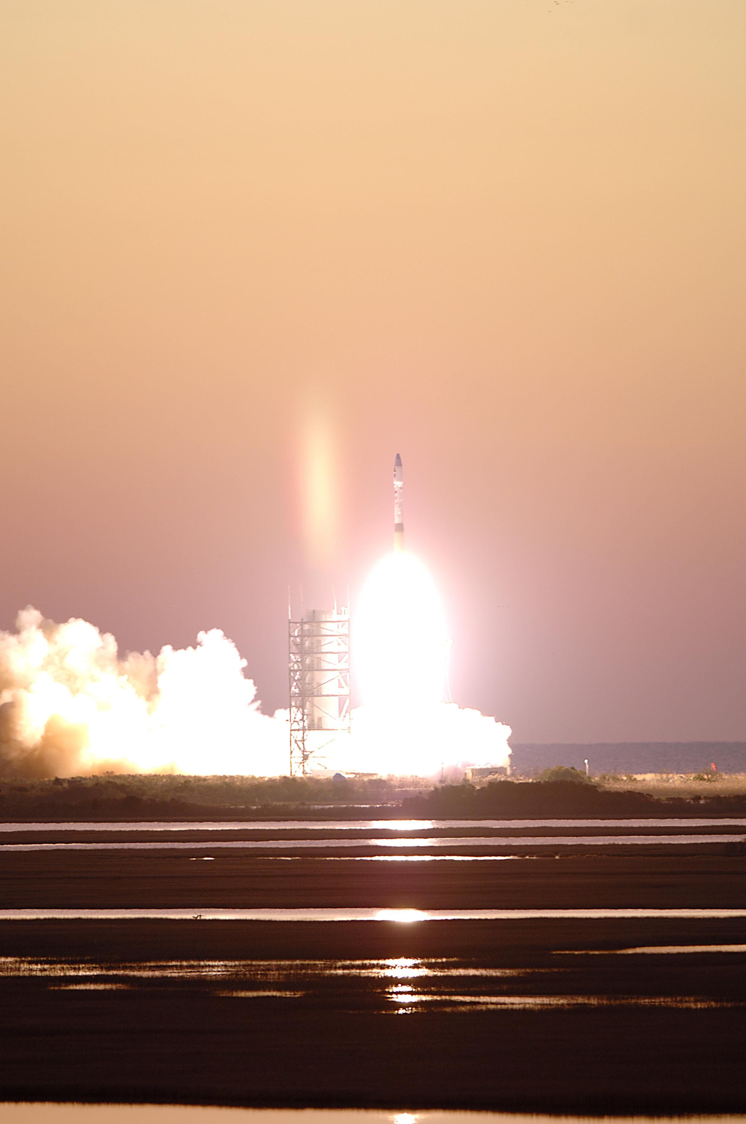 Lift-off of Minotaur 1 with satellites TacSat 2 and GeneSat 1 (Dec. 16, 2006)